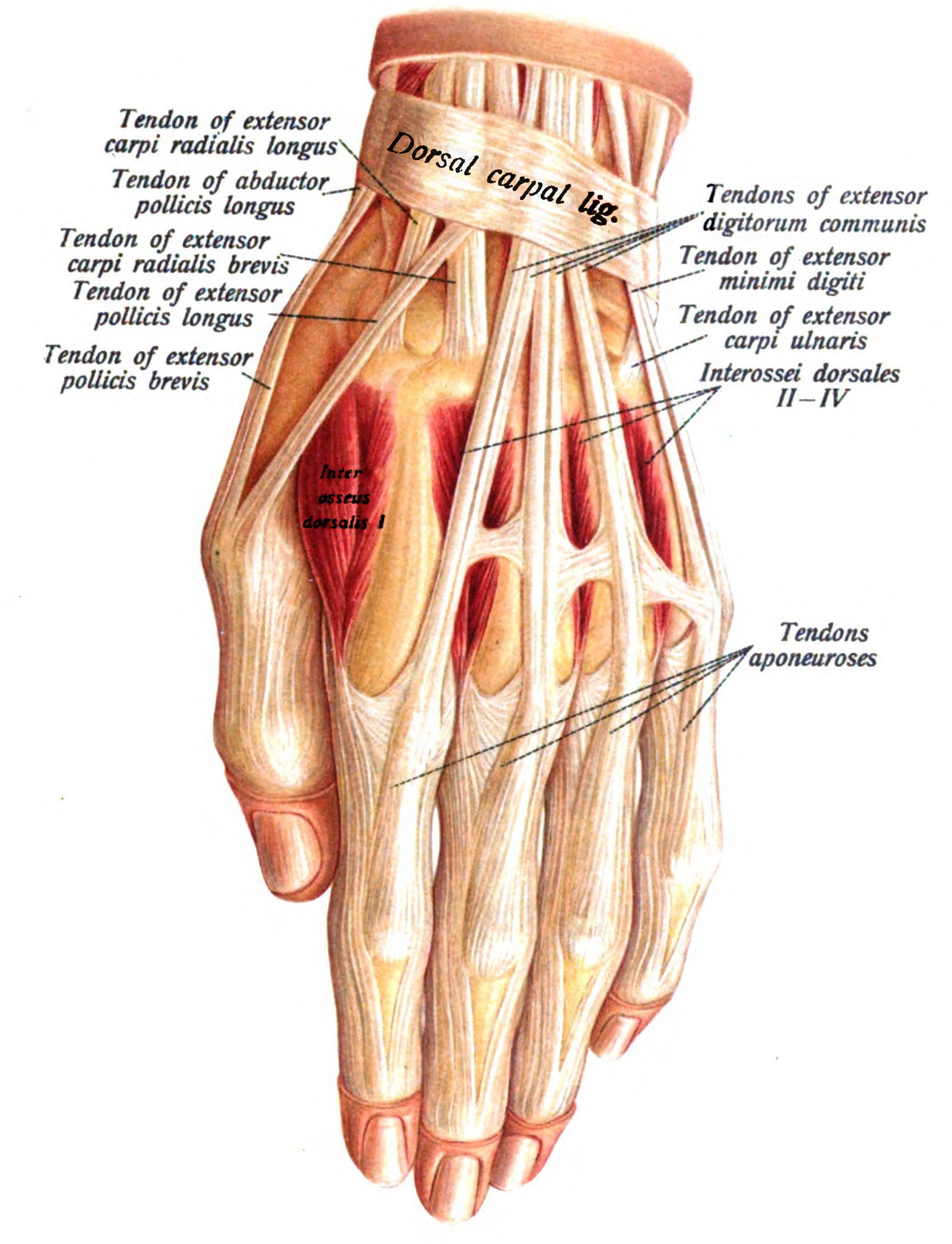 An anatomical illustration from the 1909 edition of Sobotta's Atlas and Text-book of Human Anatomy with English terminology.